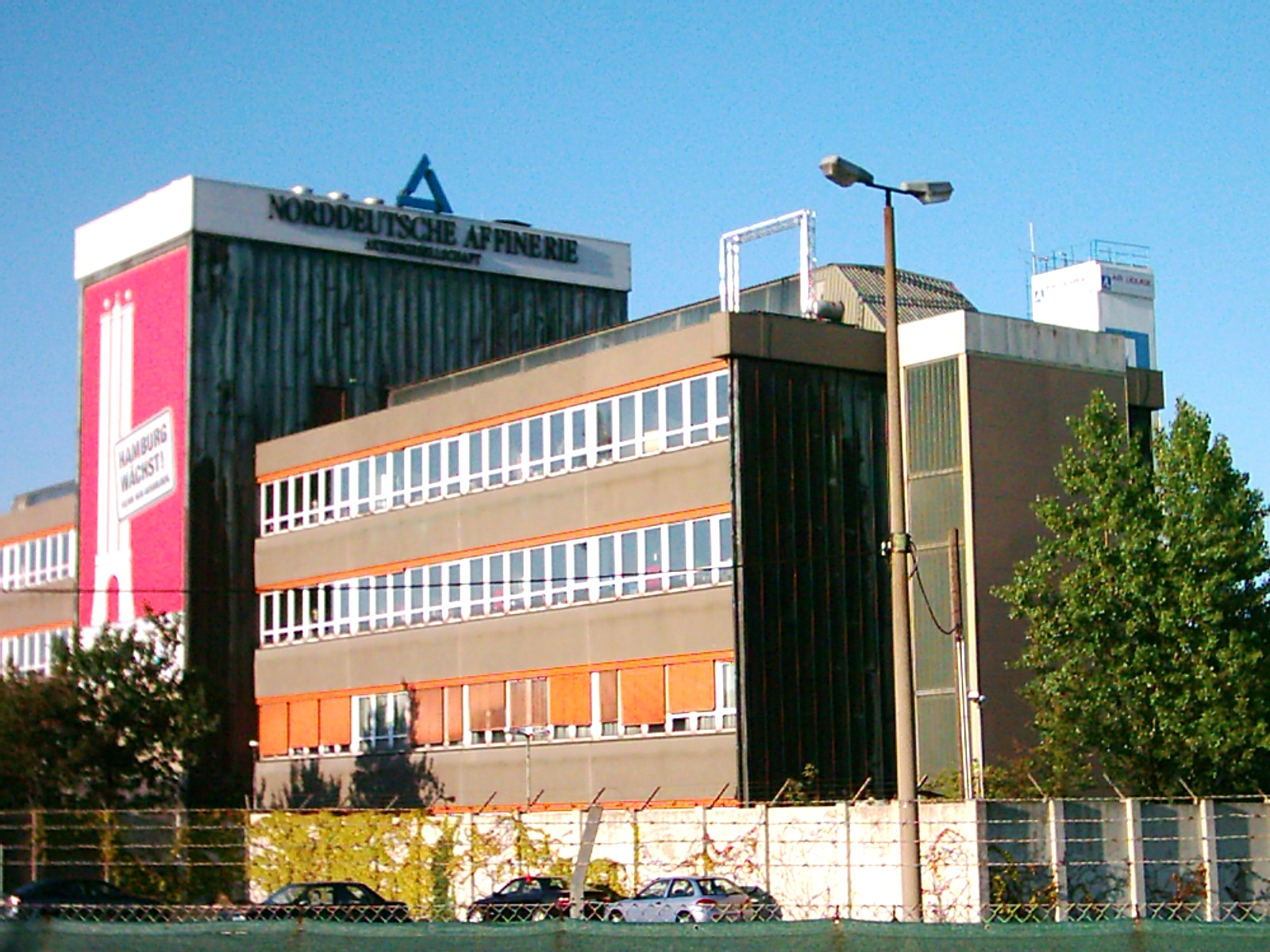 The Norddeutsche Affinerie (since 1. April 2009 Aurubis AG) in Hamburg-Georgswerder, Germany.